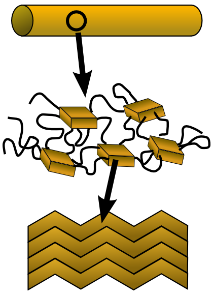 Structure of typical spider silk